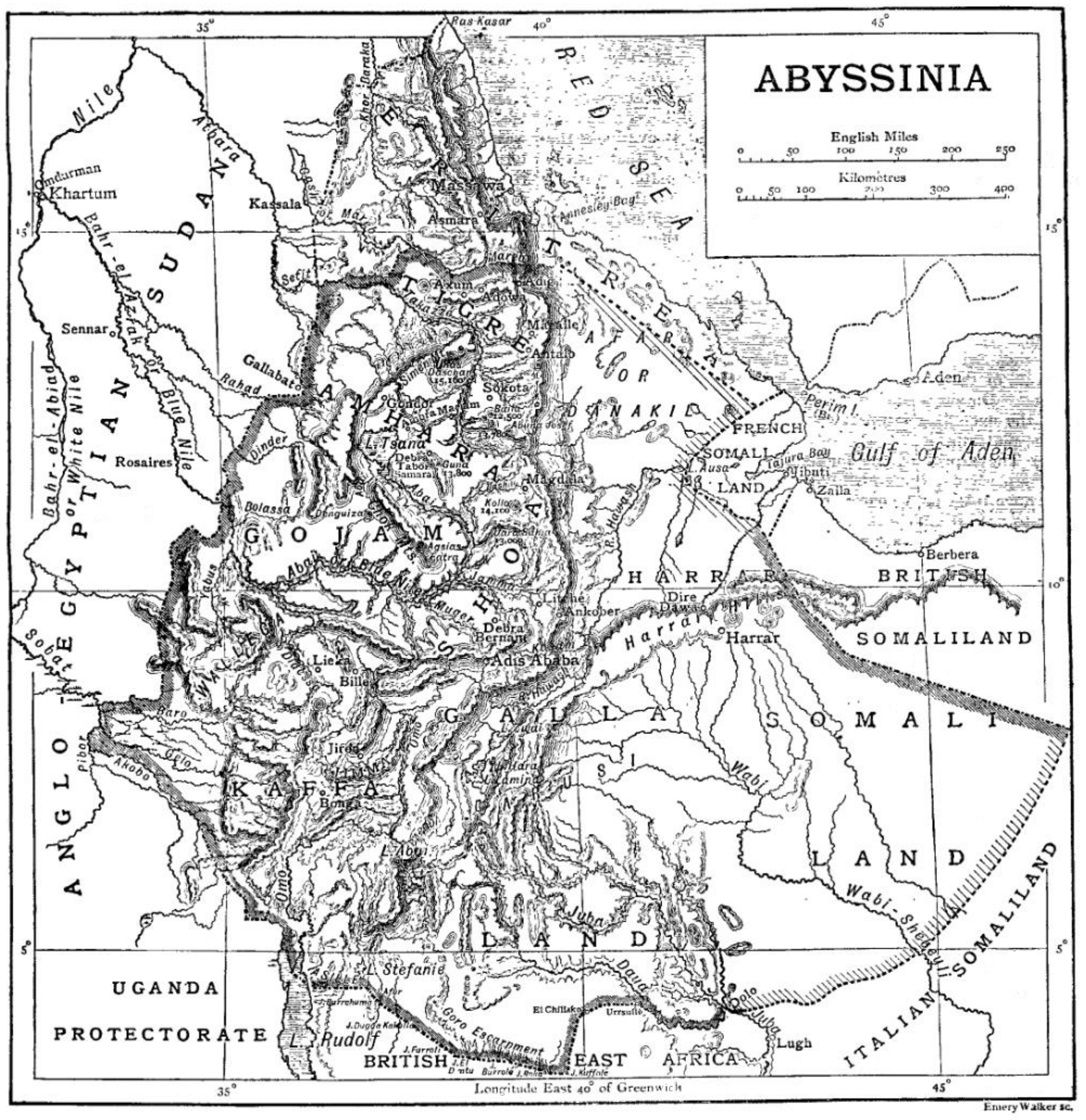 A map of Ethiopia ("Abyssinia") from the 11th edition of the Encyclopædia Britannica